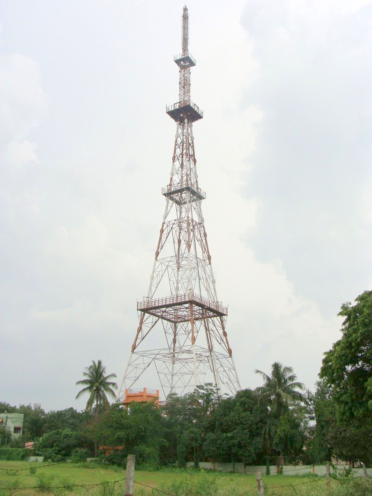 TV Tower Asansol